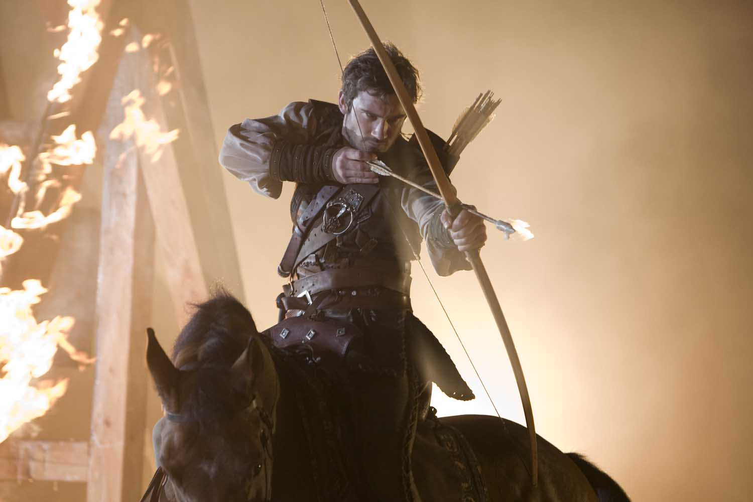 Clive Standen on set in Robin Hood